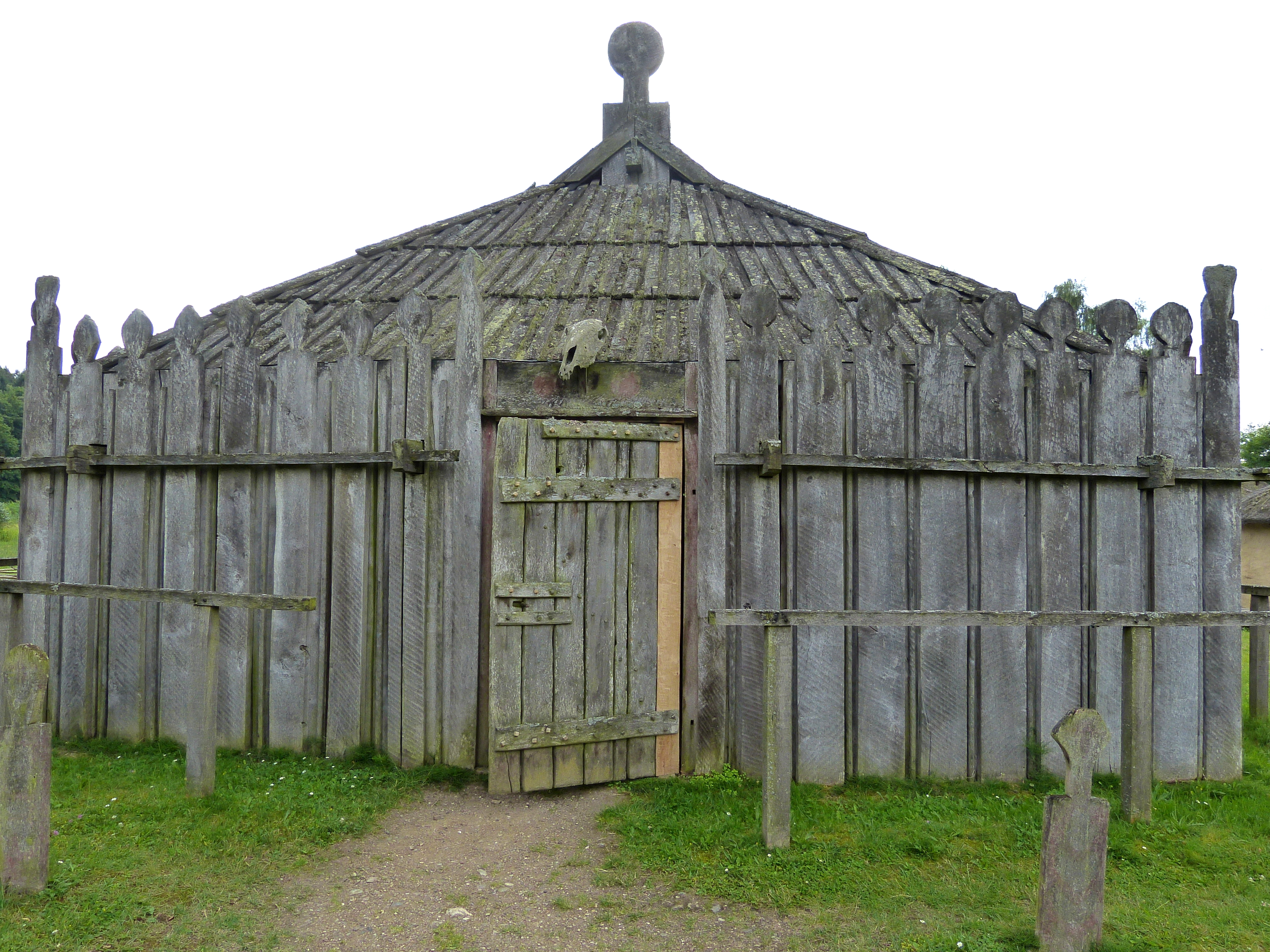 Groß Raden ( Mecklenburg ). Reconstruction of a Slavic settlement: Temple ( 10th century ) - Facade.